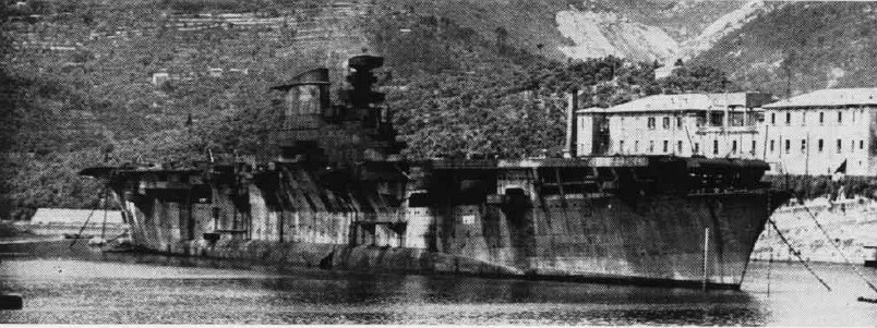 The never completed Italian aircraft carrier Aquila at anchor at La Spezia in June 1951.